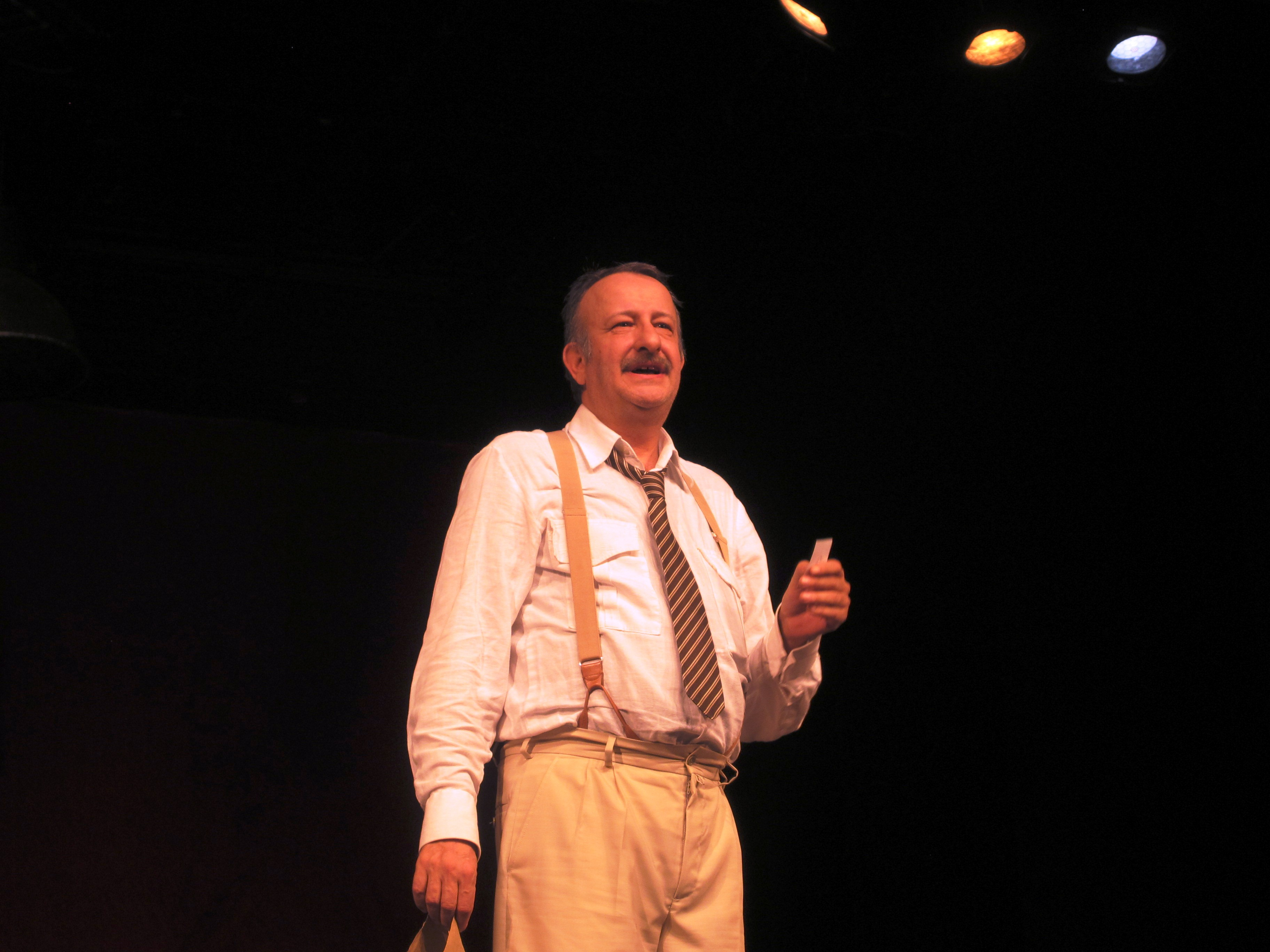 Turkish actor Naşit Özcan (2013)